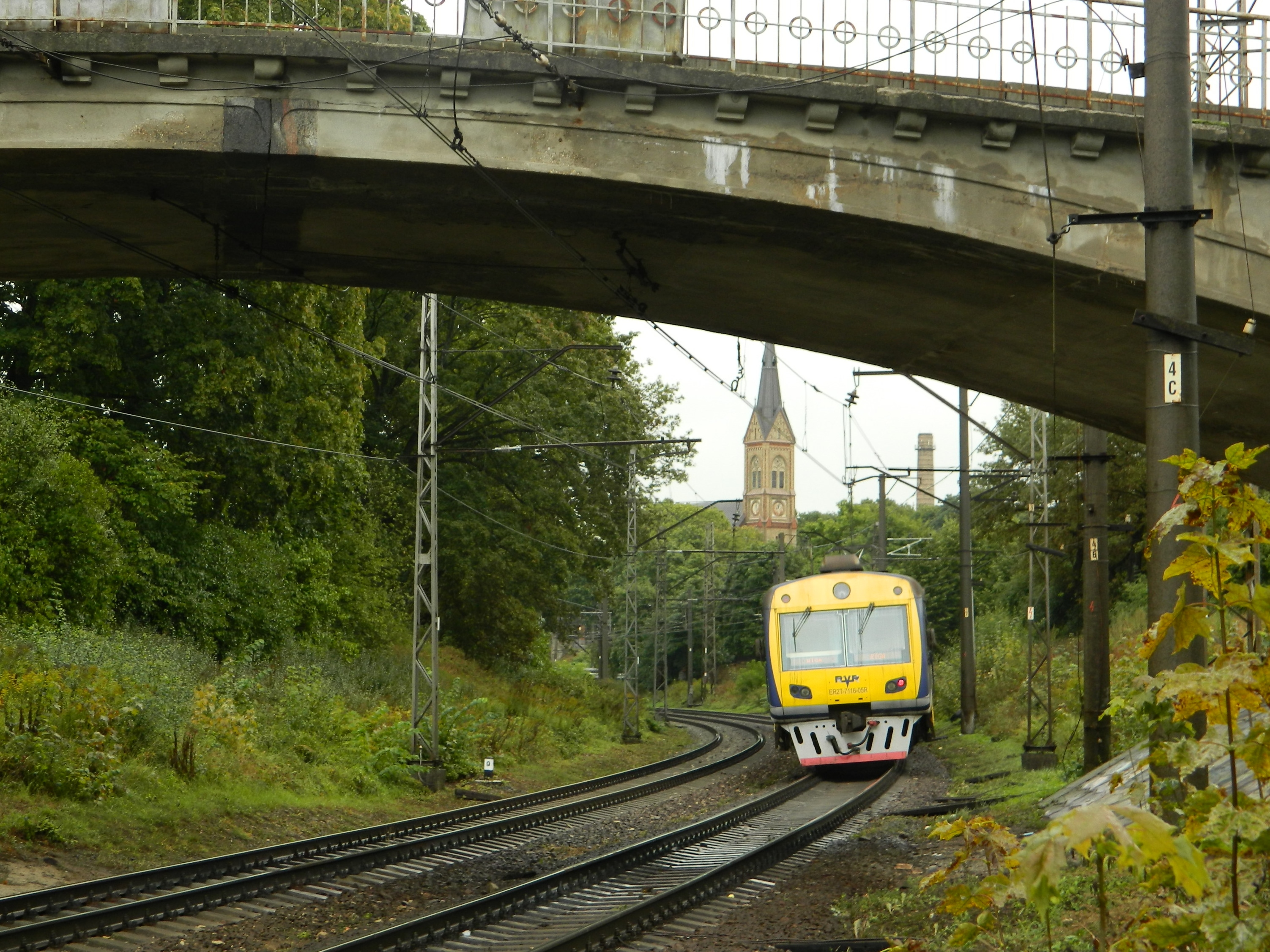 Railway bridge (Altonavas iela)